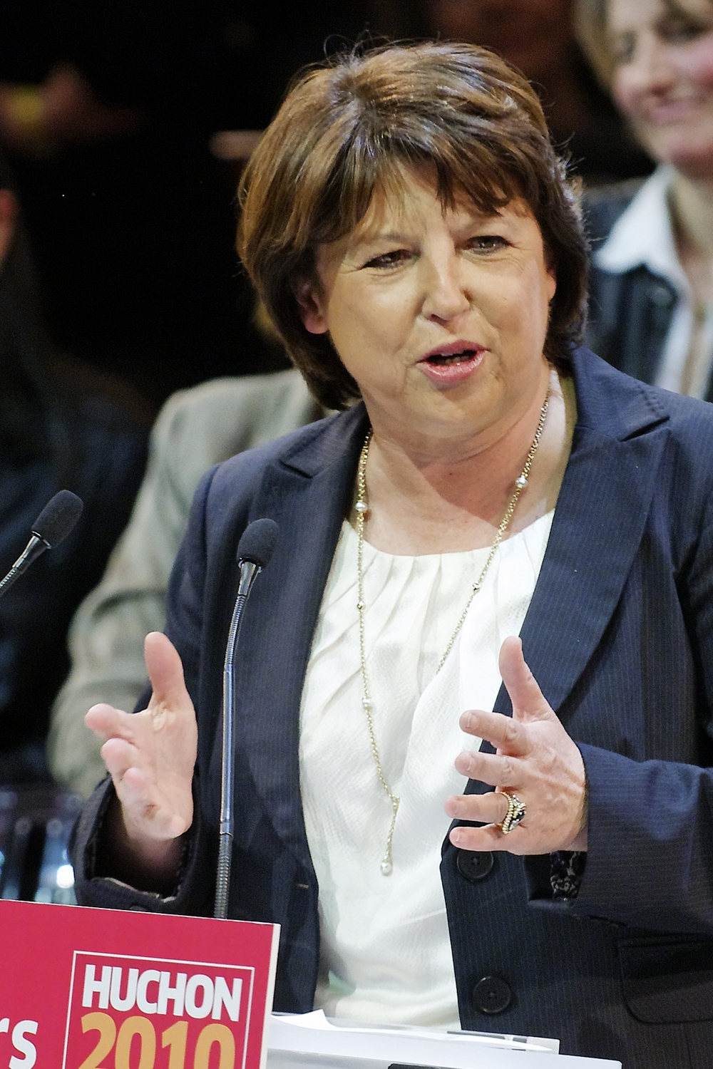 Martine Aubry at a Socialist Party's rally during the 2010 French regional elections campaign at the Cirque d'hiver, Paris.